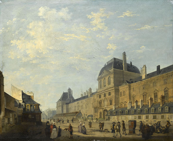 Louvre facade seen from Rue Fromenteau